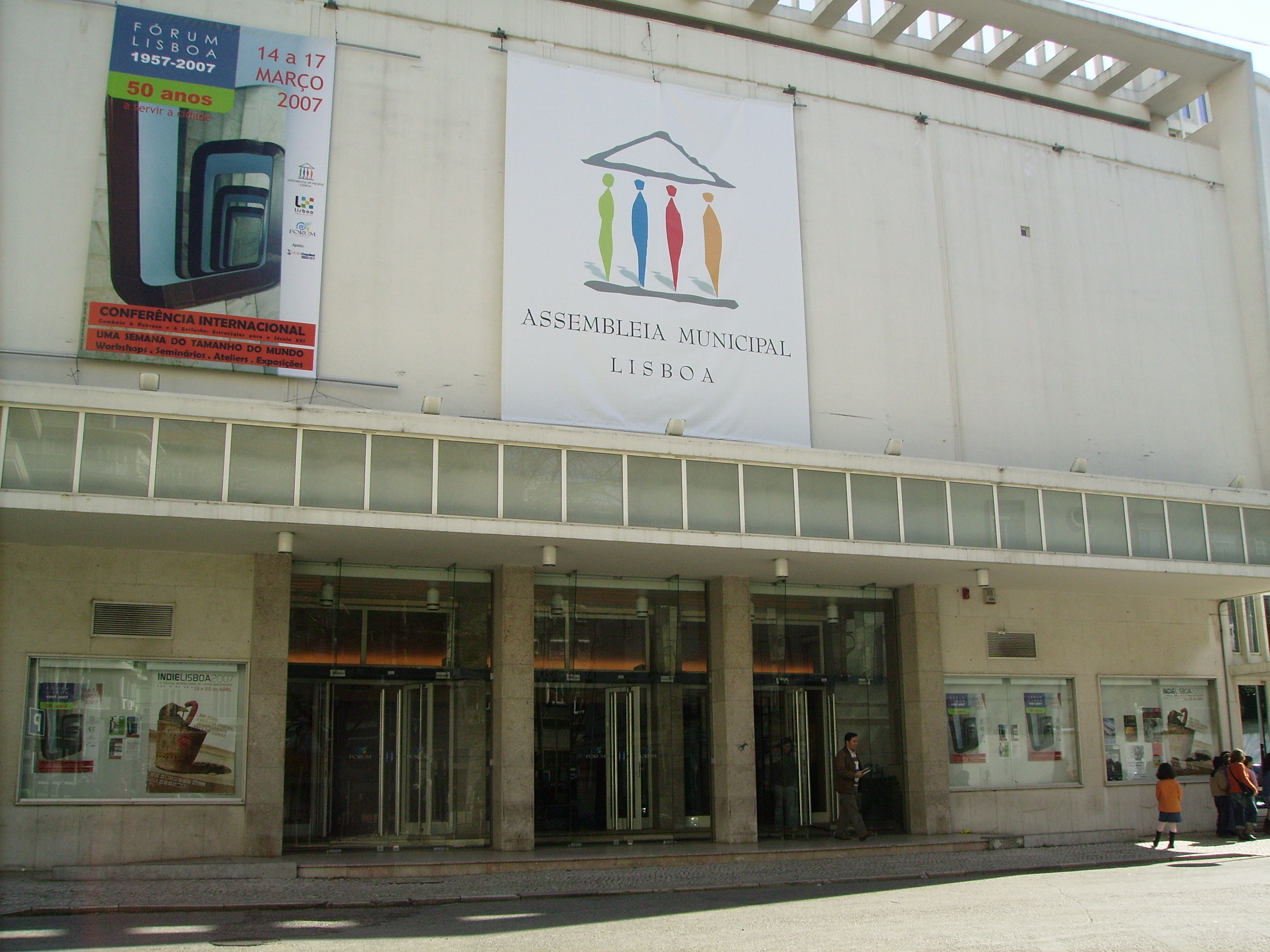 Fórum Lisboa, Avenida de Roma, Lisboa, Portugal